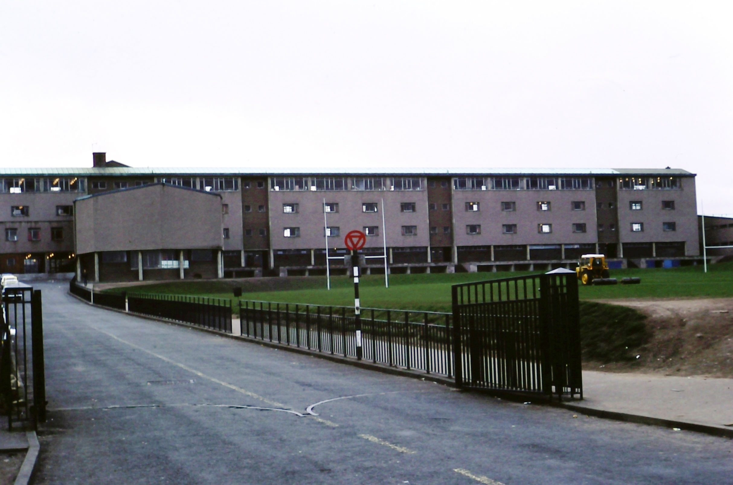 Liberton High School Gilmerton in the south of Edinburgh, photographed in 1981.